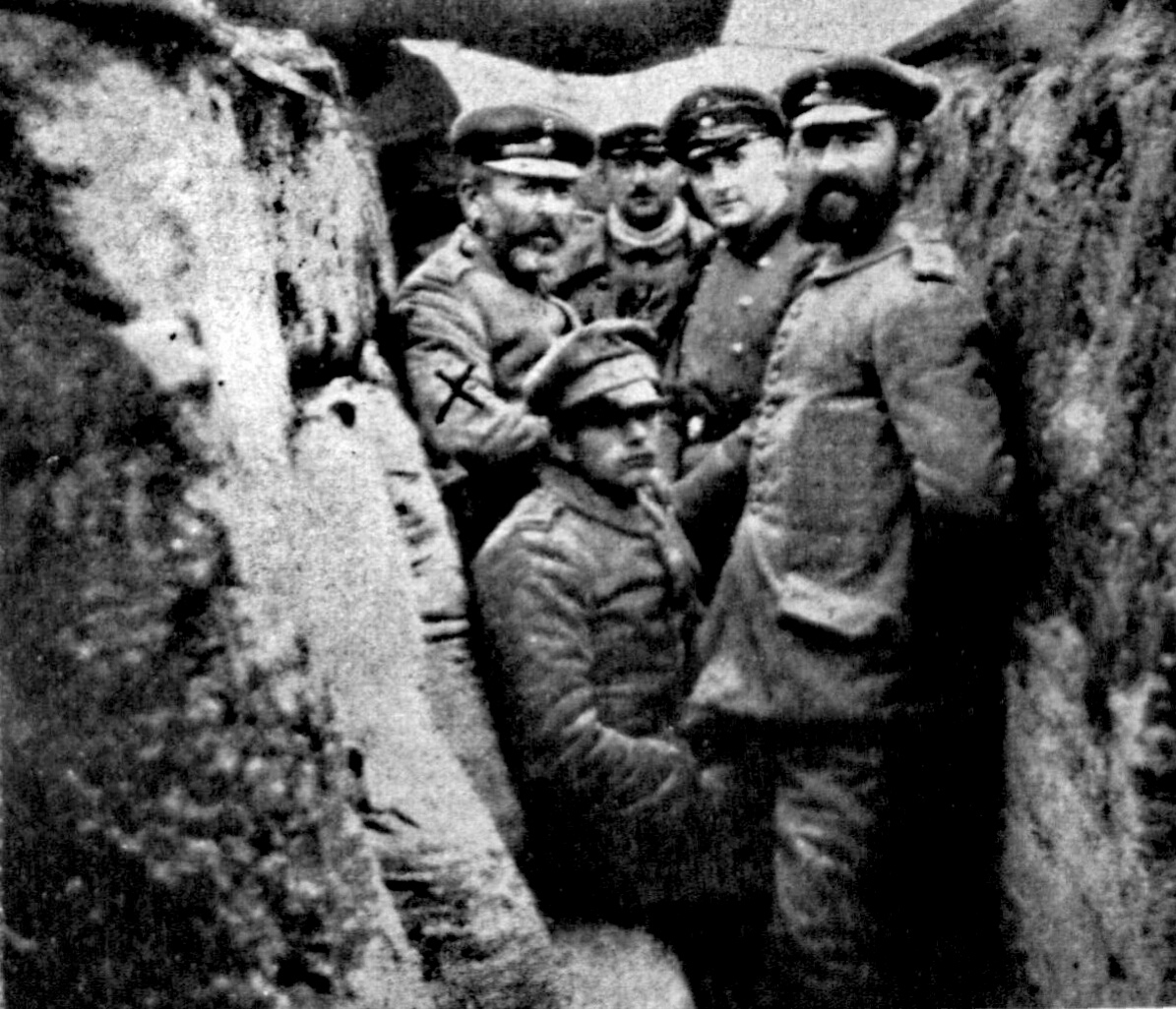 The poet Dehmel on the battle field